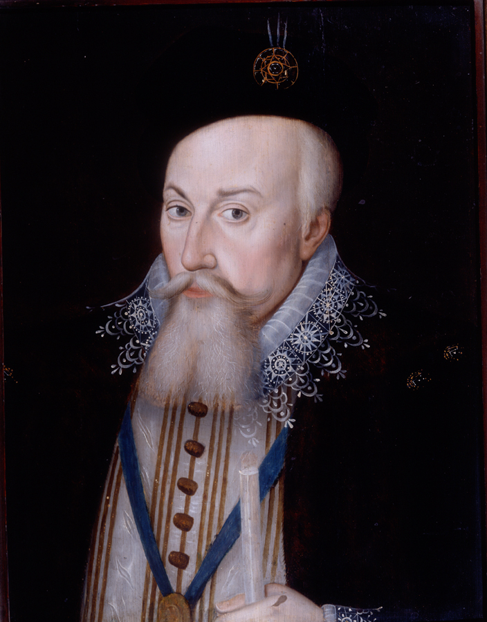 Portrait of Robert Dudley Earl of Leicester (1532-1588). Kenilworth Castle.